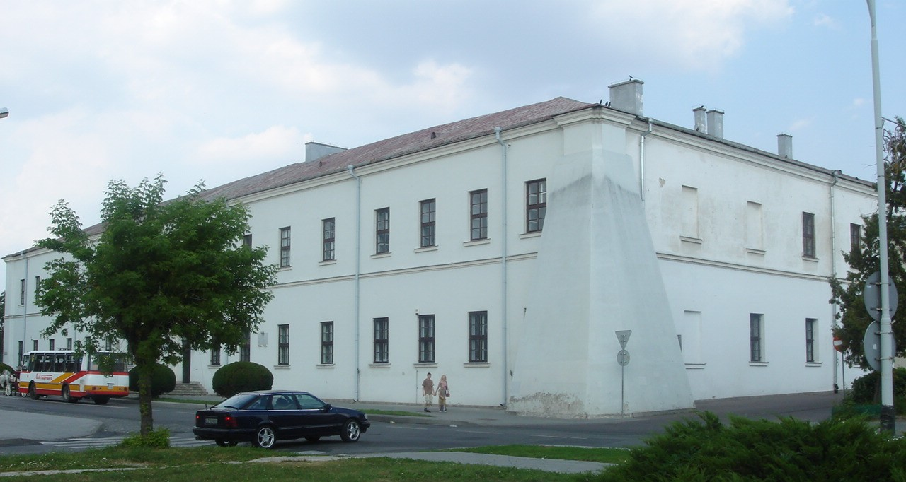 Former Zamość Academy